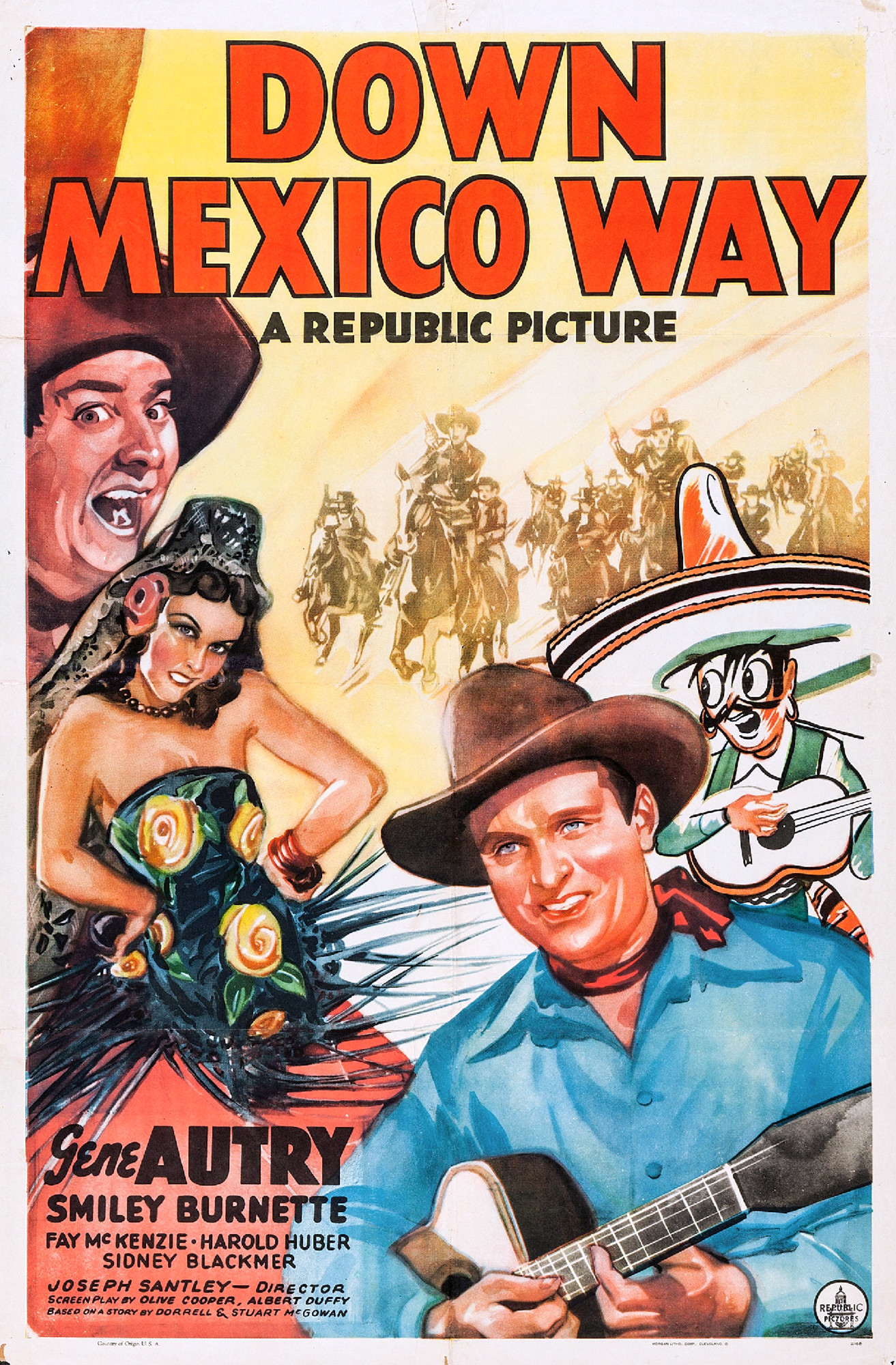 Poster for the 1941 film Down Mexico Way. The item has no copyright markings on it as can be seen in the links above. At bottom left is Country of origin USA; at bottom right is Morgan Litho Corp, Cleveland, O, who printed the poster, and 2116B.